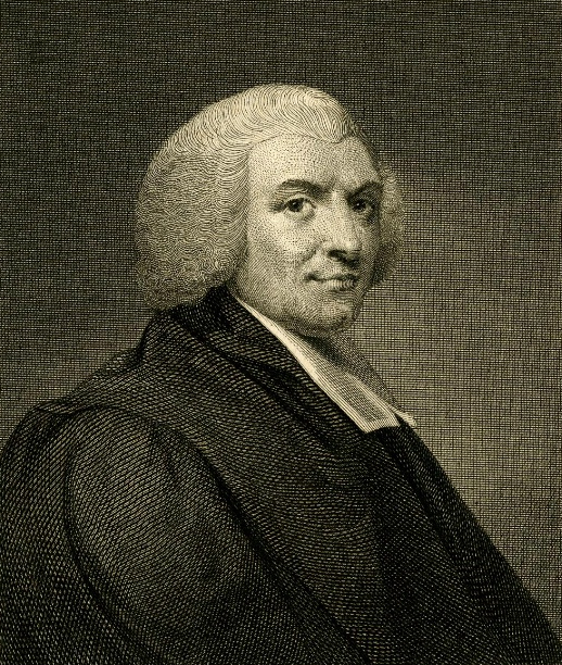 Benjamin Heath, Book-collector, 1738